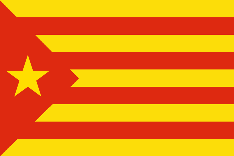 Variant of the red Estelada, Catalan flag